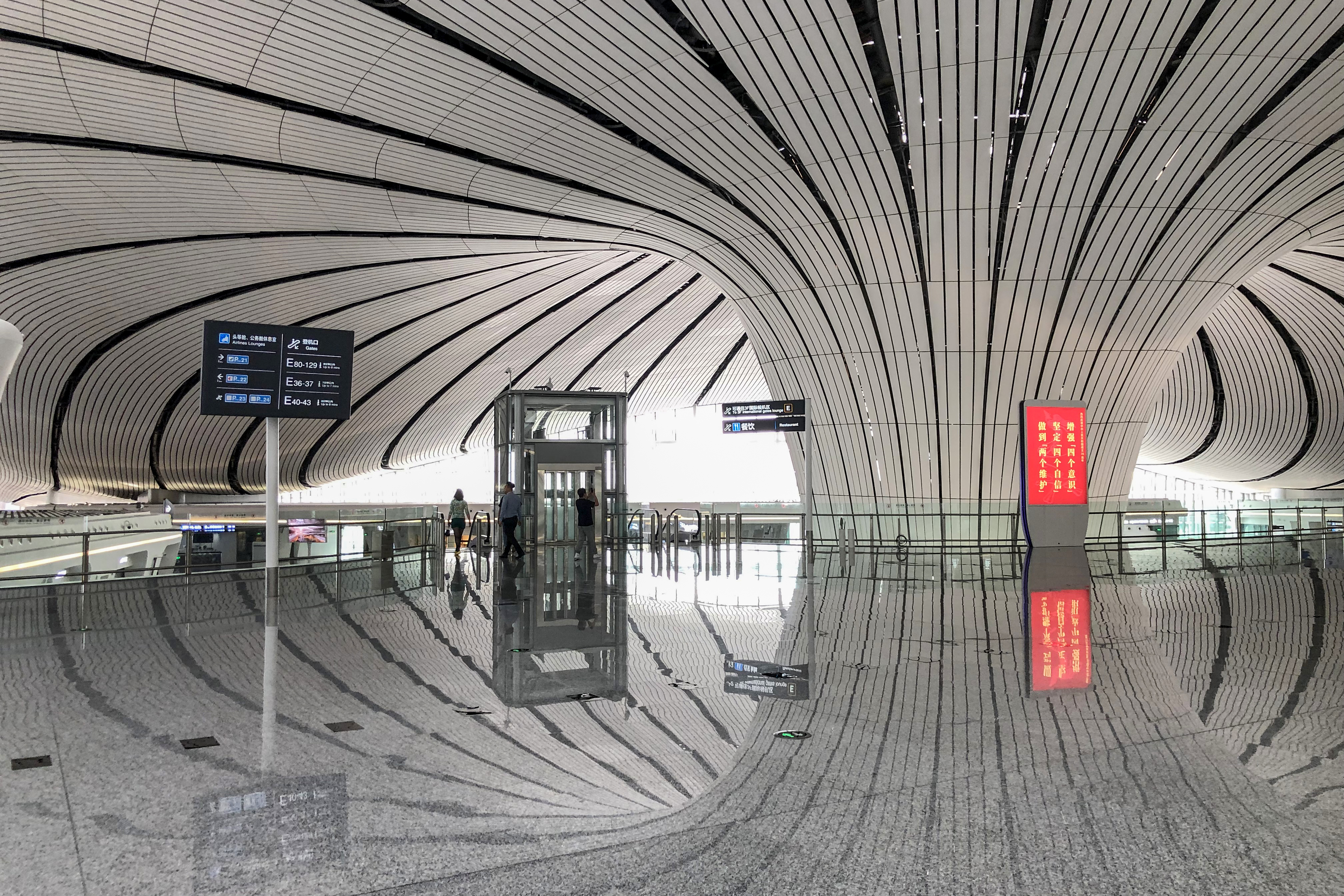 To the international/Hong Kong/Macau/Taiwan departure concourse. PKX has a different style of information boards...